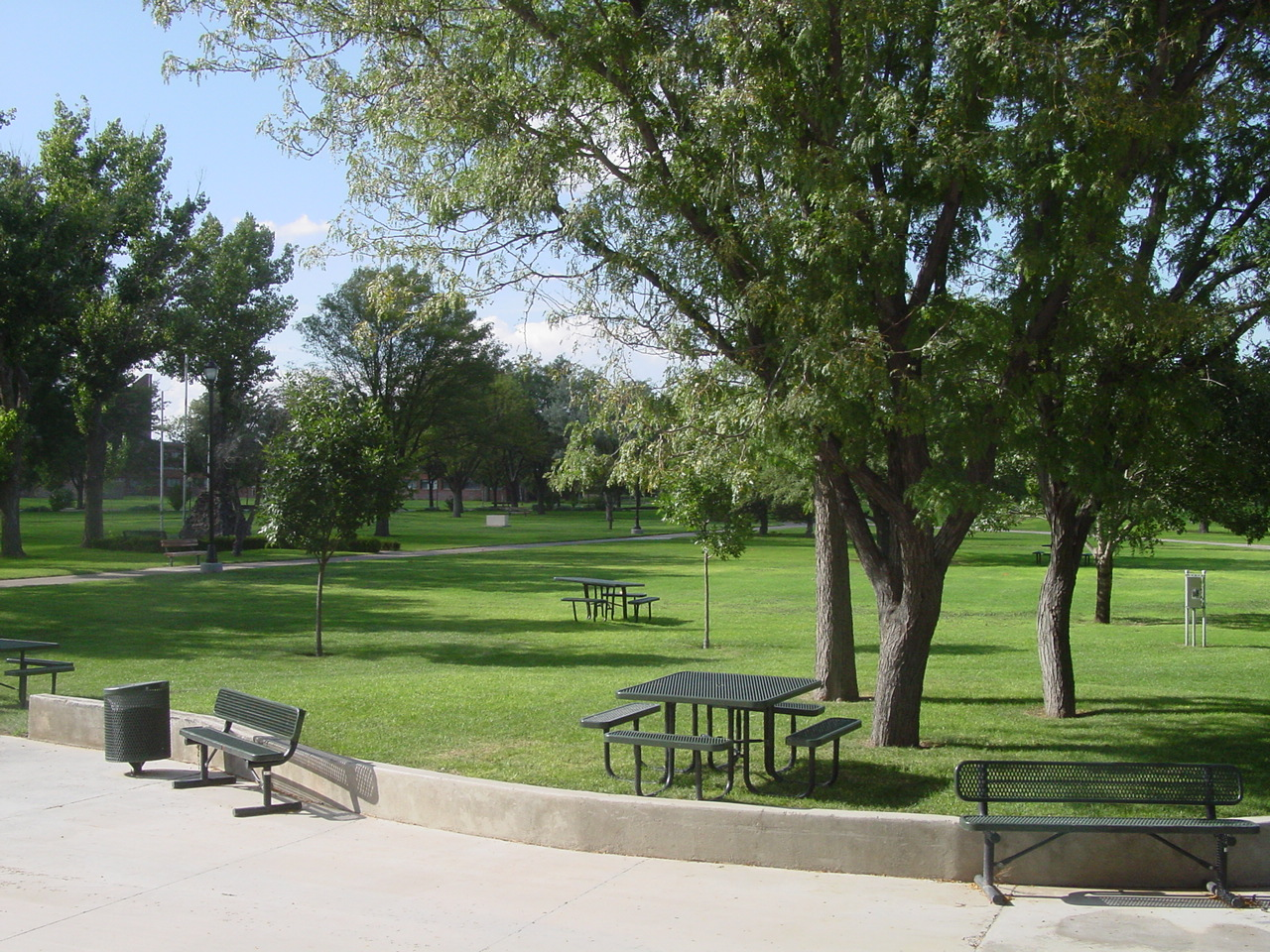 Taken by MadMaxMarchHare. A view of the primary quad at ENMU.